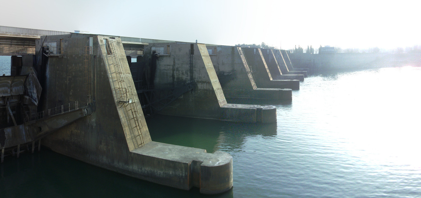 North part of the Caderousse dam on the Rhône river. Operator Compagnie Nationale du Rhône (CNR).